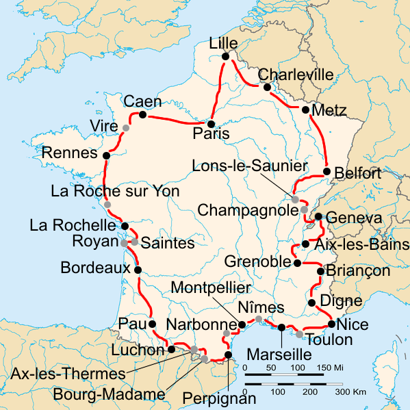 Route of the 1937 Tour de France, starting and finishing in Paris. The black dots are the cities that hosted a stage start and finish, the grey dots are the cities where a split stage was split.